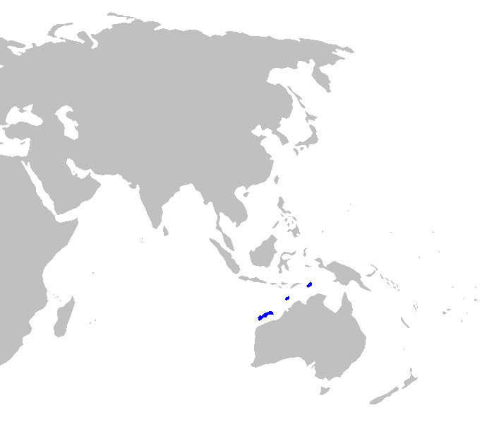 Distribution map for Etmopterus evansi